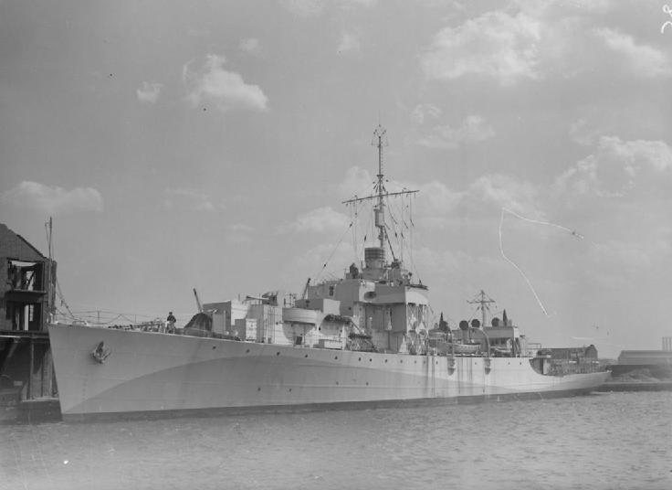 Photograph of River class frigate HMS Mourne.